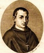 Image of Giulio Calvi, bishop of Sora in 1608, from the Biografia degli uomini illustri del Regno di Napoli, tomo IX, edition by Gervasi, Naples 1822.